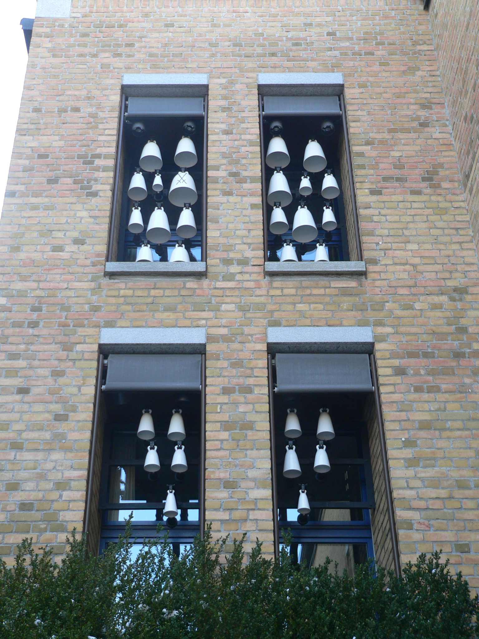 Carillon at the town hall Fellbach, Germany. The bells consist of Meissen porcelain